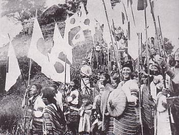 Taiwanese Aborigines who shake National flag of Japan